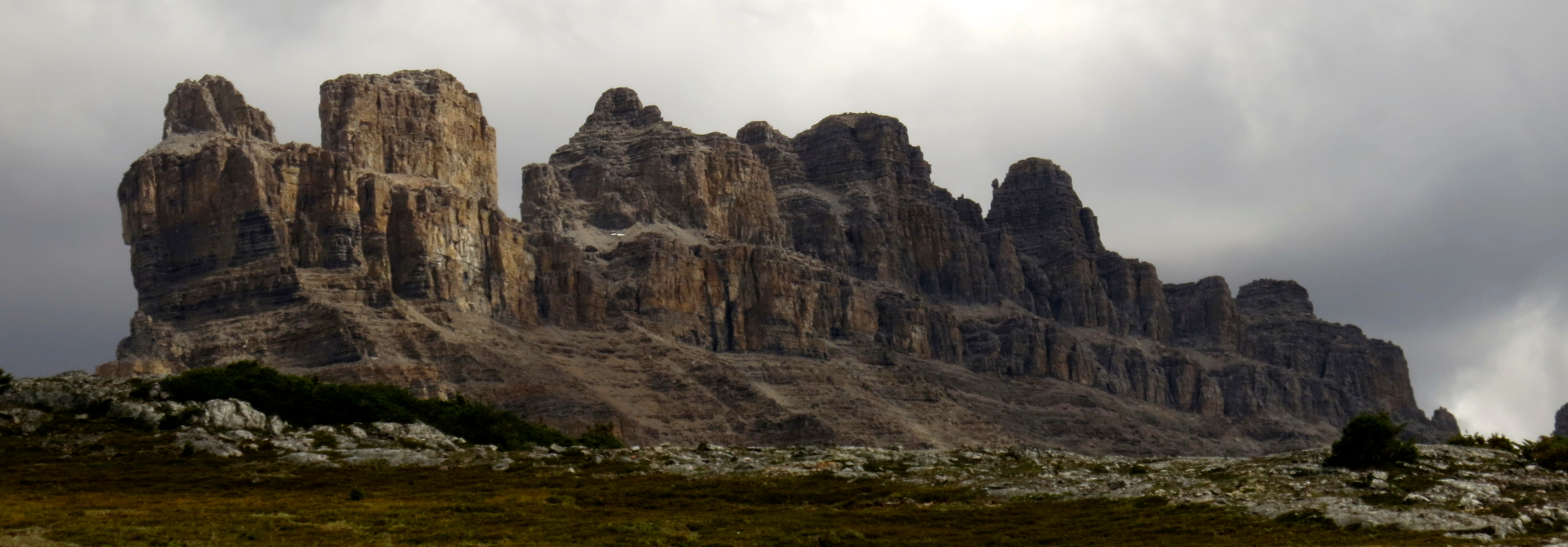 Dolomite Peak in Banff National Park, Alberta Canada